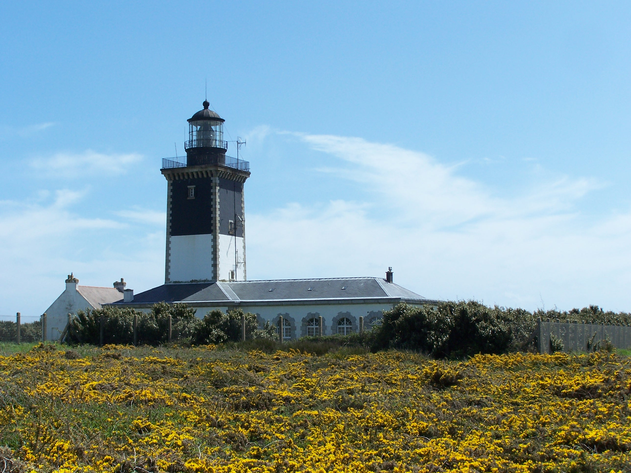 Phare de Pen Men à la pointe homonyme de l'île de Groix